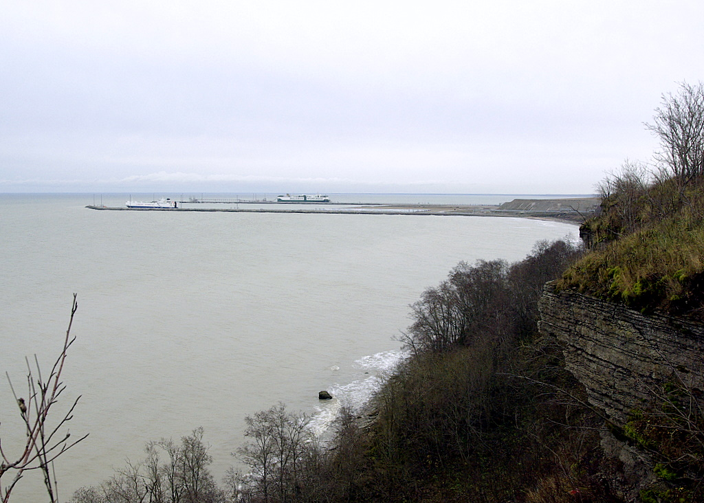 Coast of Estonia at Sillamäe.